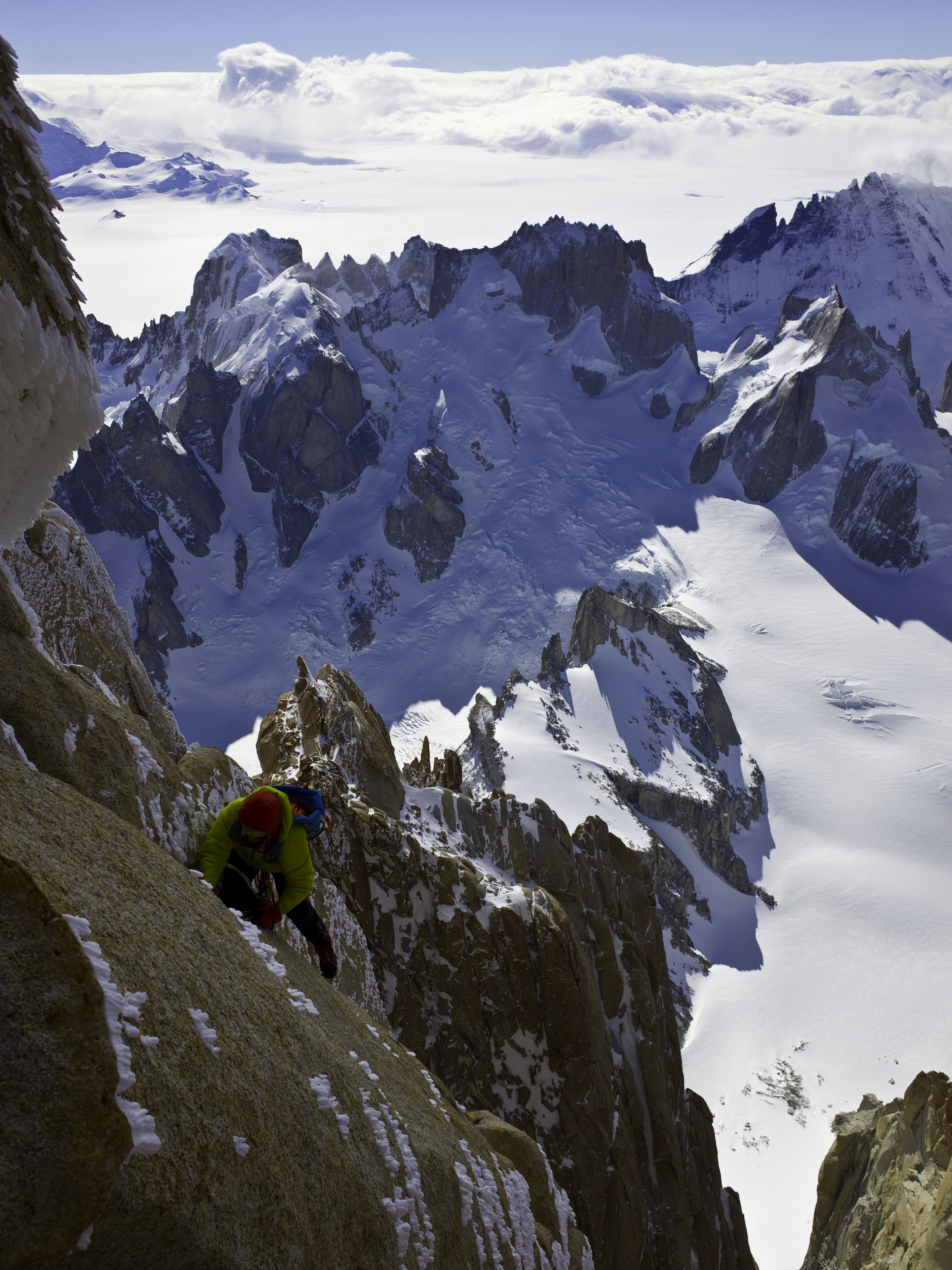 Fitz Roy, Patagonia. Photo by: Kristoffer Szilas.